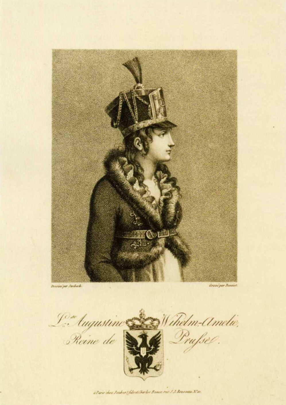 Louise, Queen of Prussia. Following Jacques Swebach